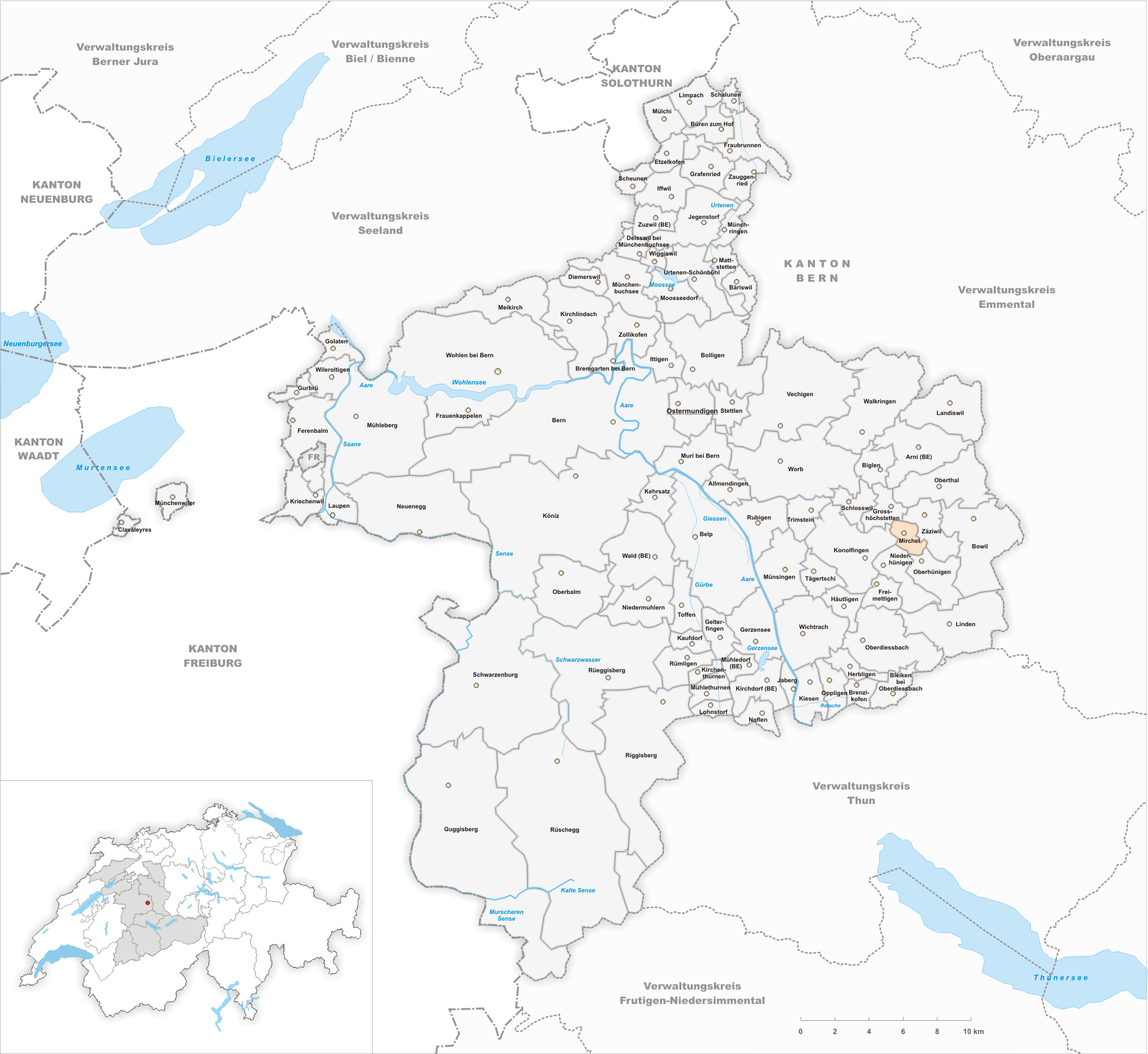 Municipality Mirchel